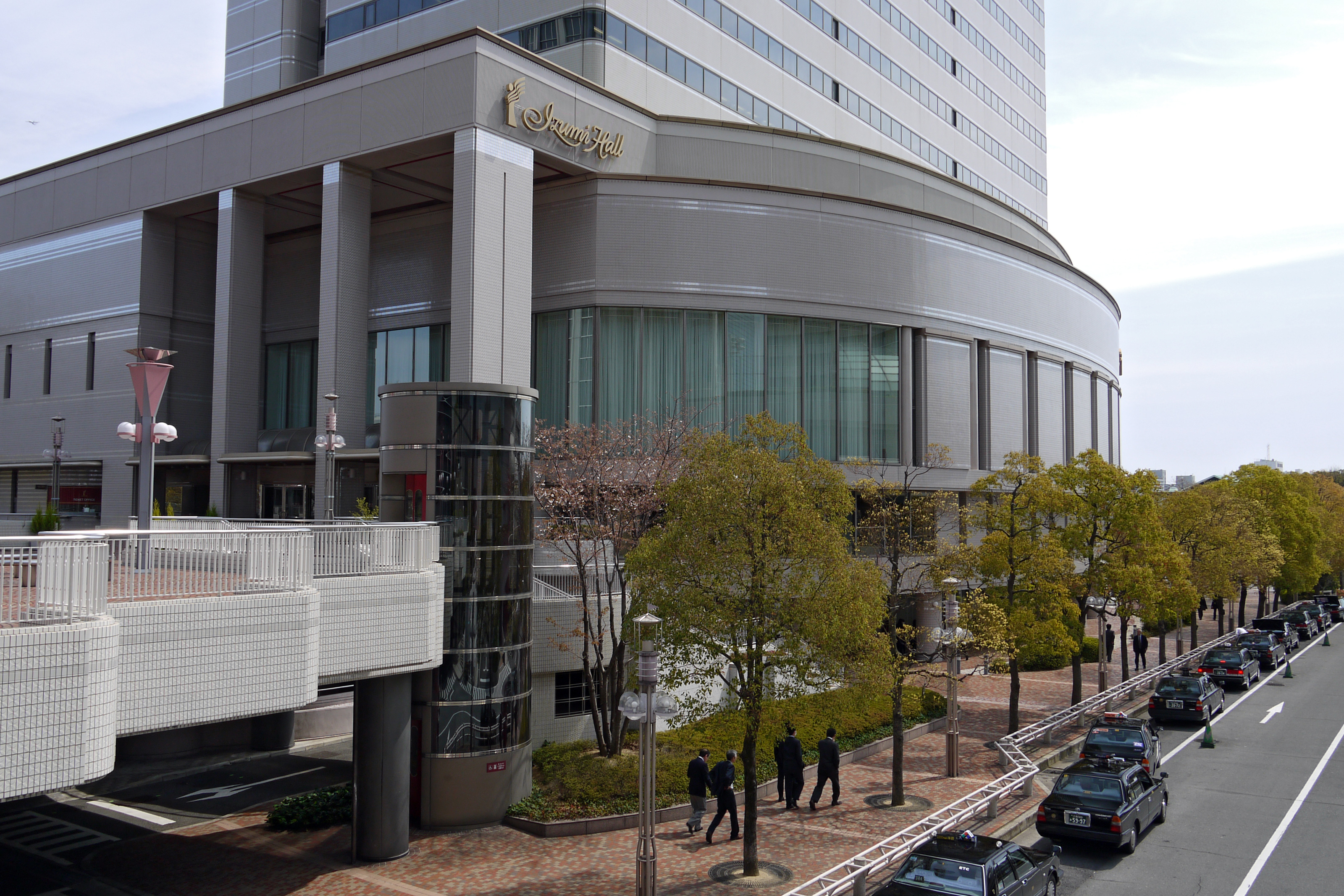 Izumi Hall in Osaka, Osaka prefecture, Japan